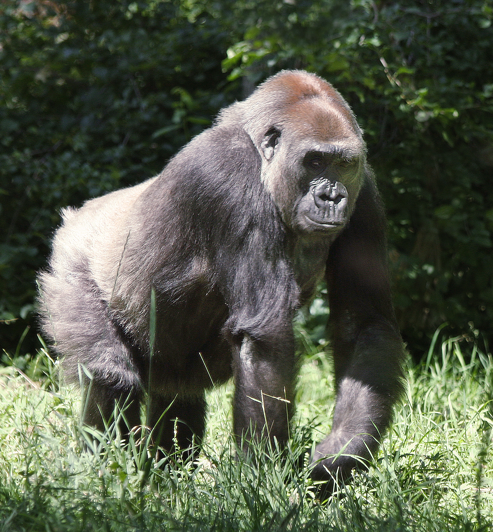 Central African Republic Western Lowland Gorilla